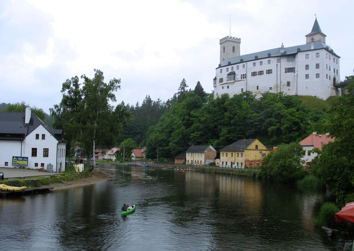 Rožmberk nad Vltavou, the Czech Republic